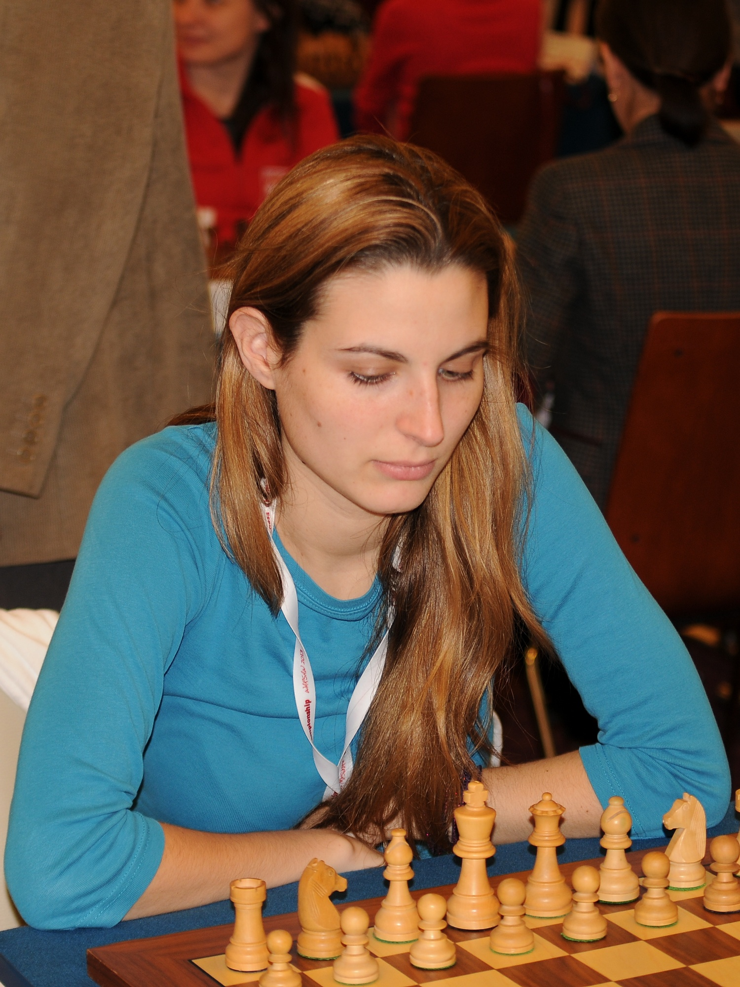 WGM Petra Papp, European Chess Team Championship Warsaw 2013